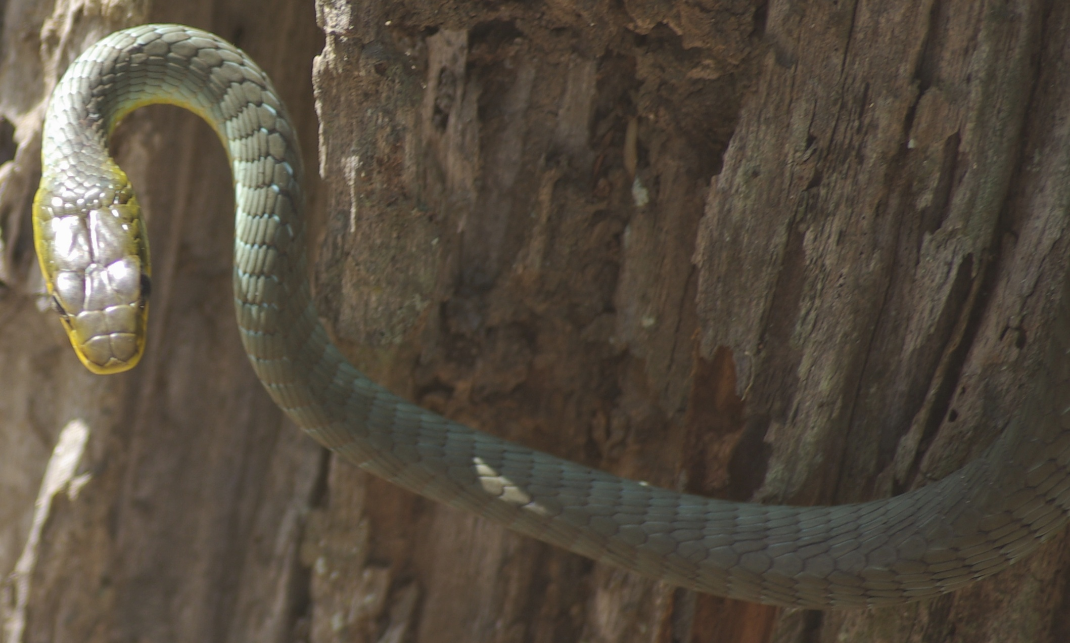 Common Tree Snake. Photographed in Brisbane, Australia